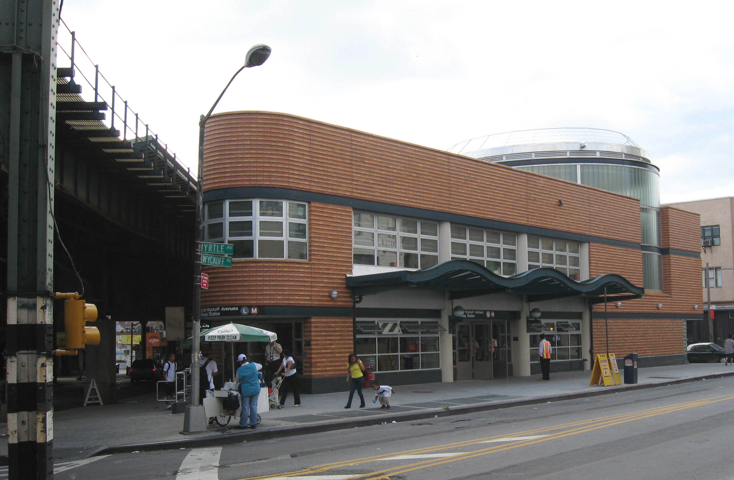 Looking west at north side of Myrtle–Wyckoff Avenues (New York City Subway) headhouse on a mostly sunny afternoon